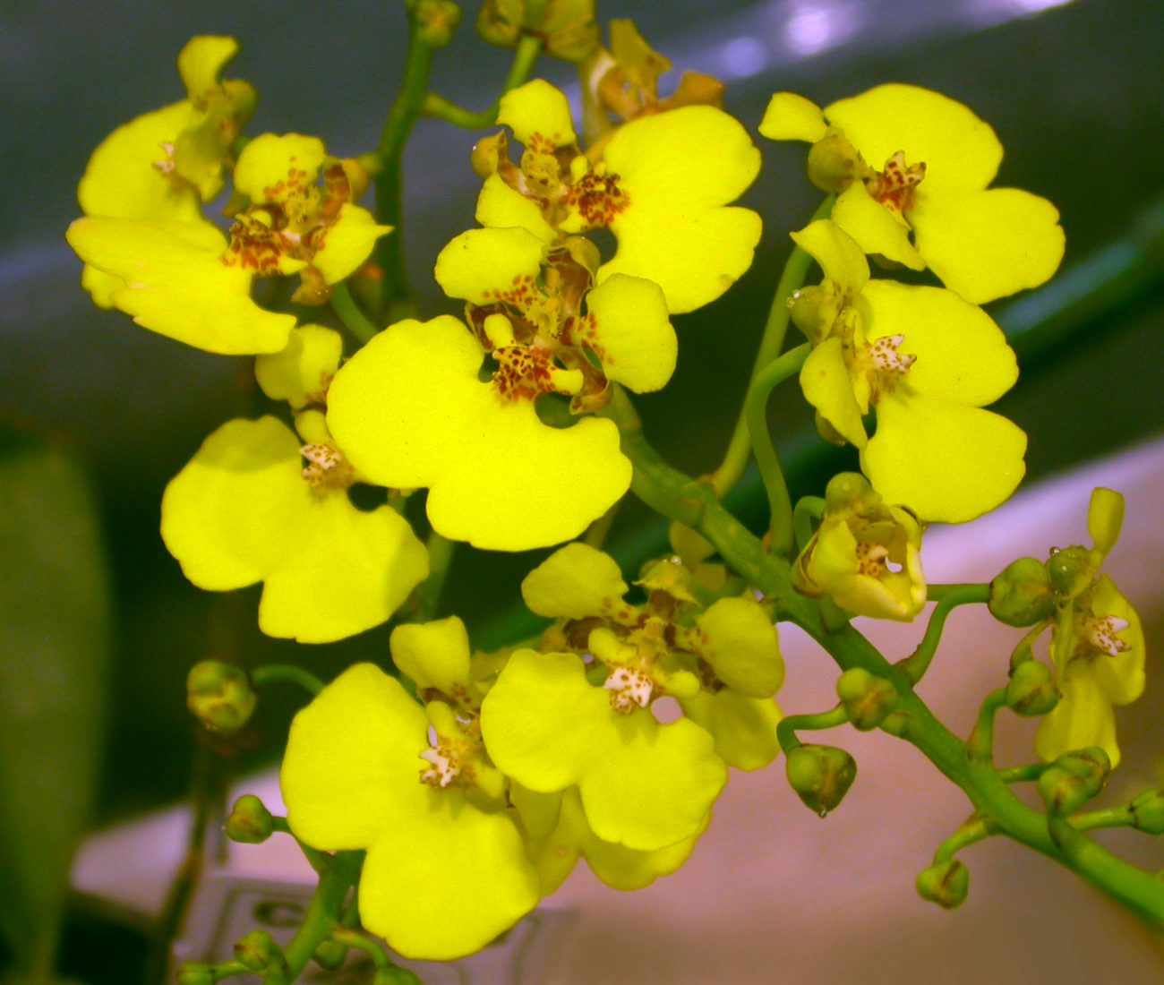 Chelyorchis ampliata